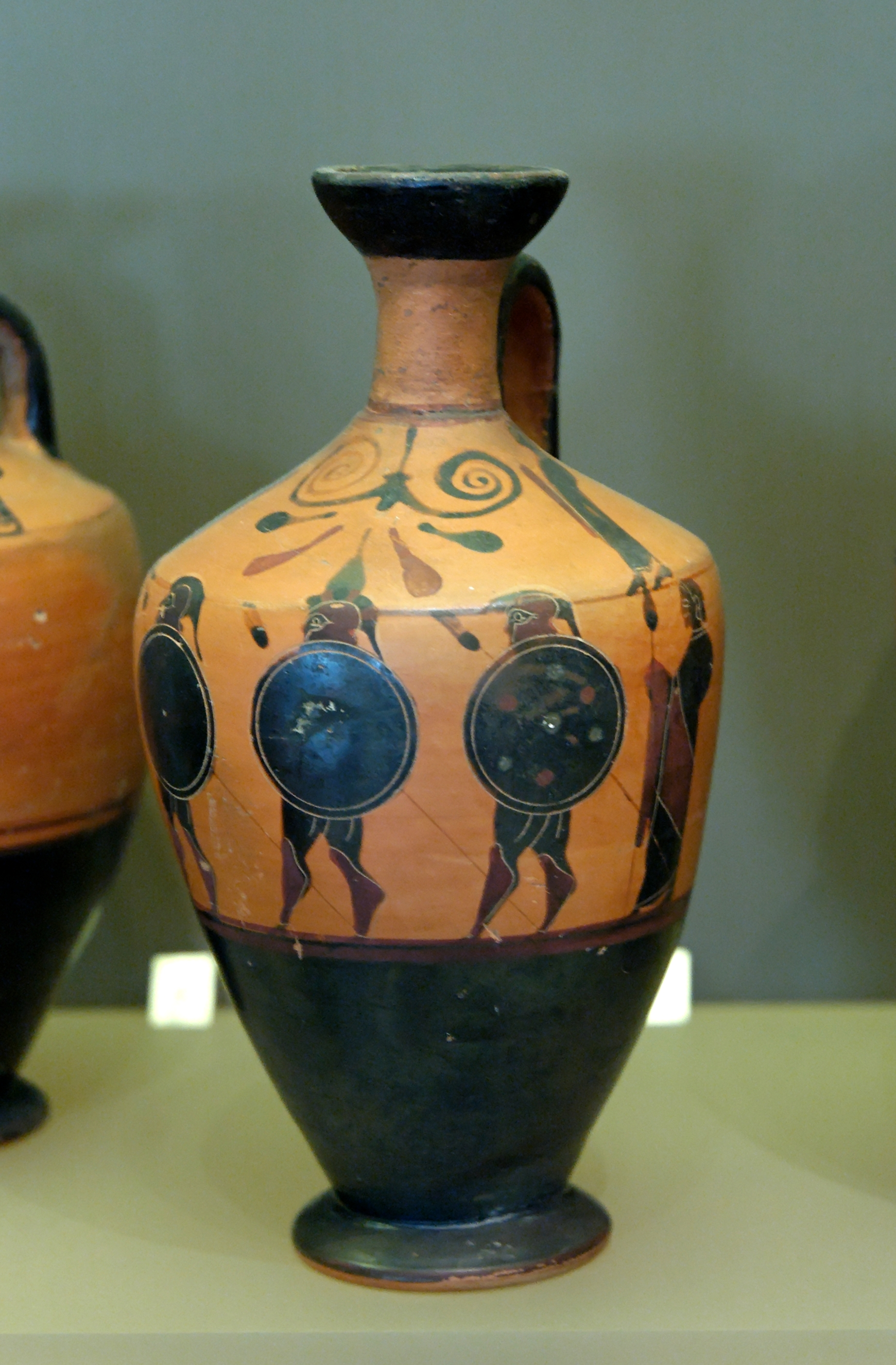 Hoplites. Attic black-figure lekythos, 510–500 BC, found in Sala Consilina.